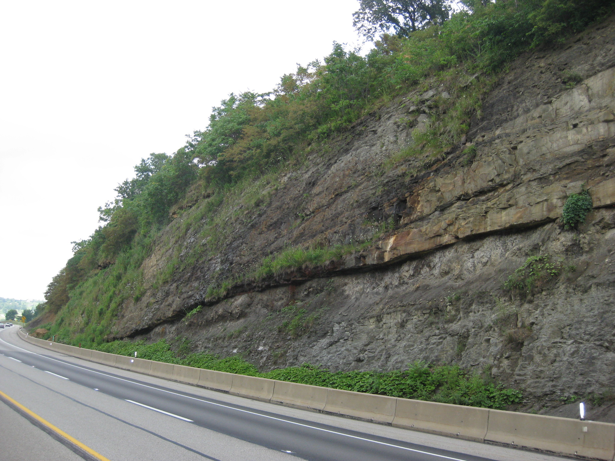 Outcrop of Pennsylvanian Casselman Formation, Mile Marker 84.2, Pennsylvania Turnpike (Interstate 76). Taken July 2010.